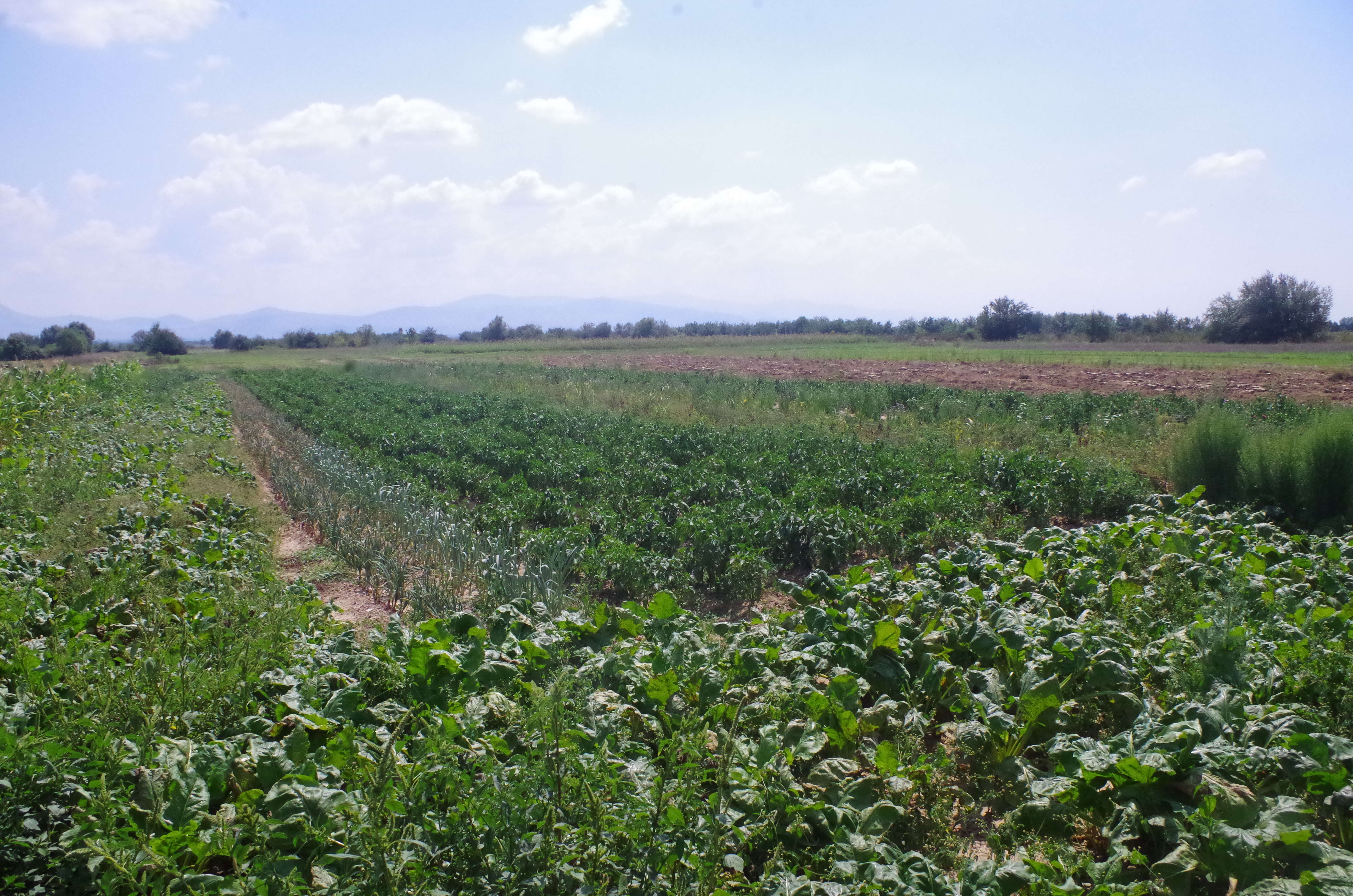 Agriculture in fields in Pelagonia, Macedonia